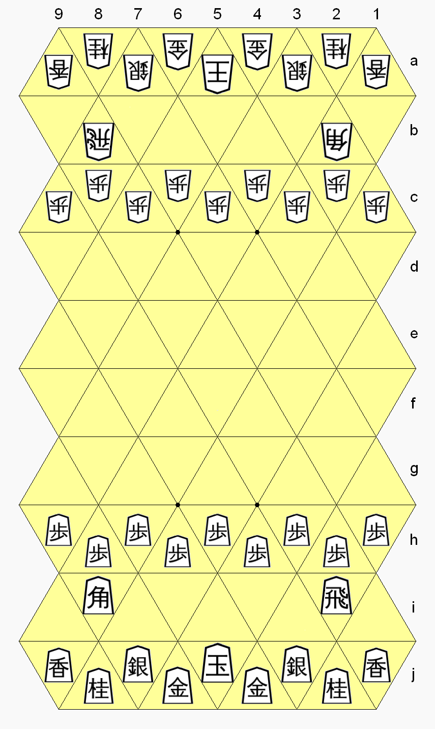 Trishogi starting position. Using shogi pieces by User:Perey (Shogi.svg), but modified. All done in MS PAINT.